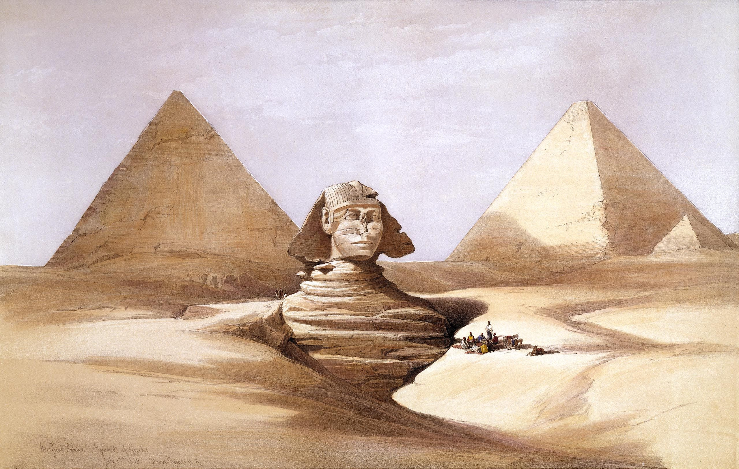 19th century painting of Sphinx of Giza, partly under sand, with two pyramids in the background.